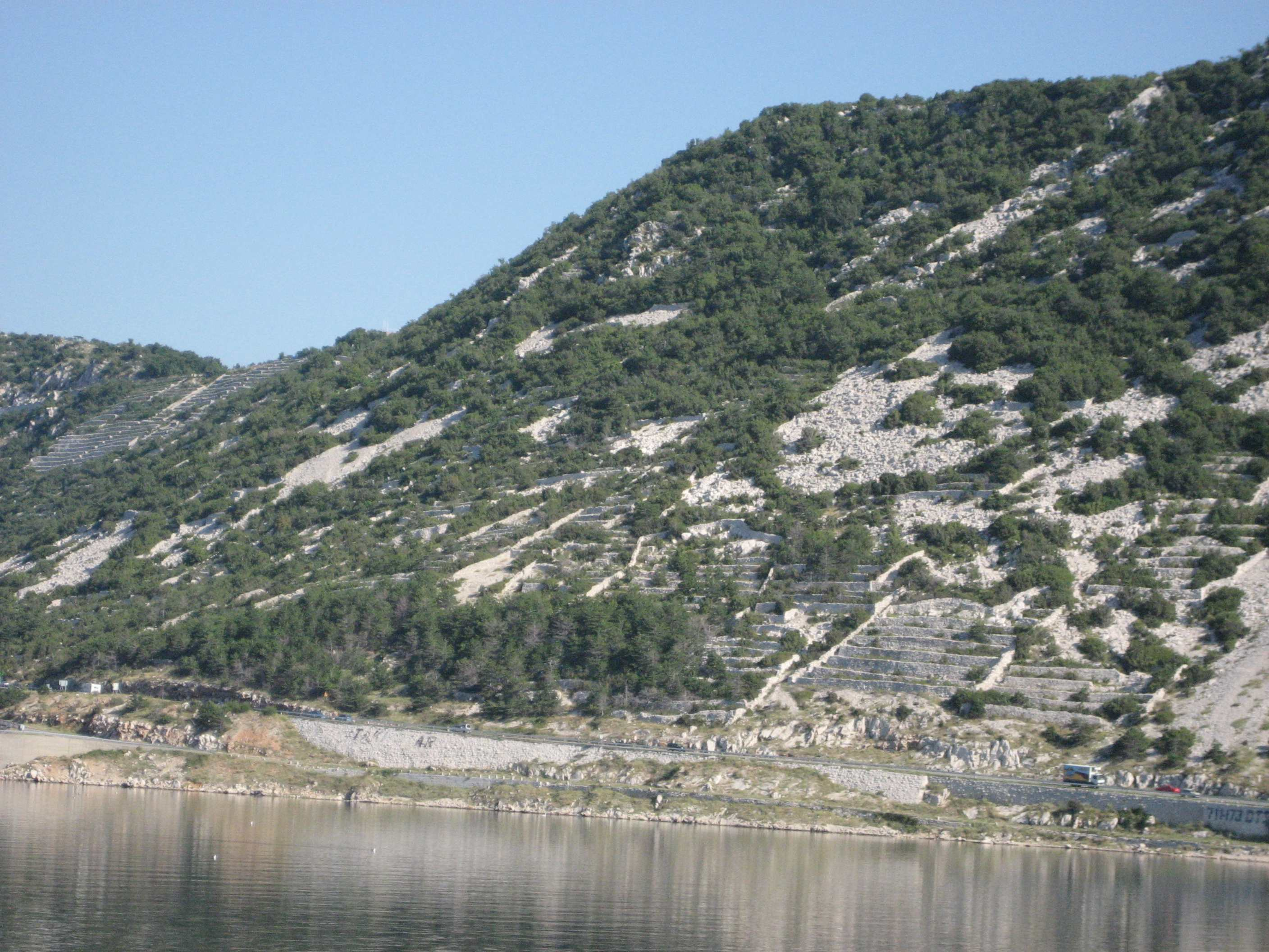 Bakarski Prezidi, Croatia